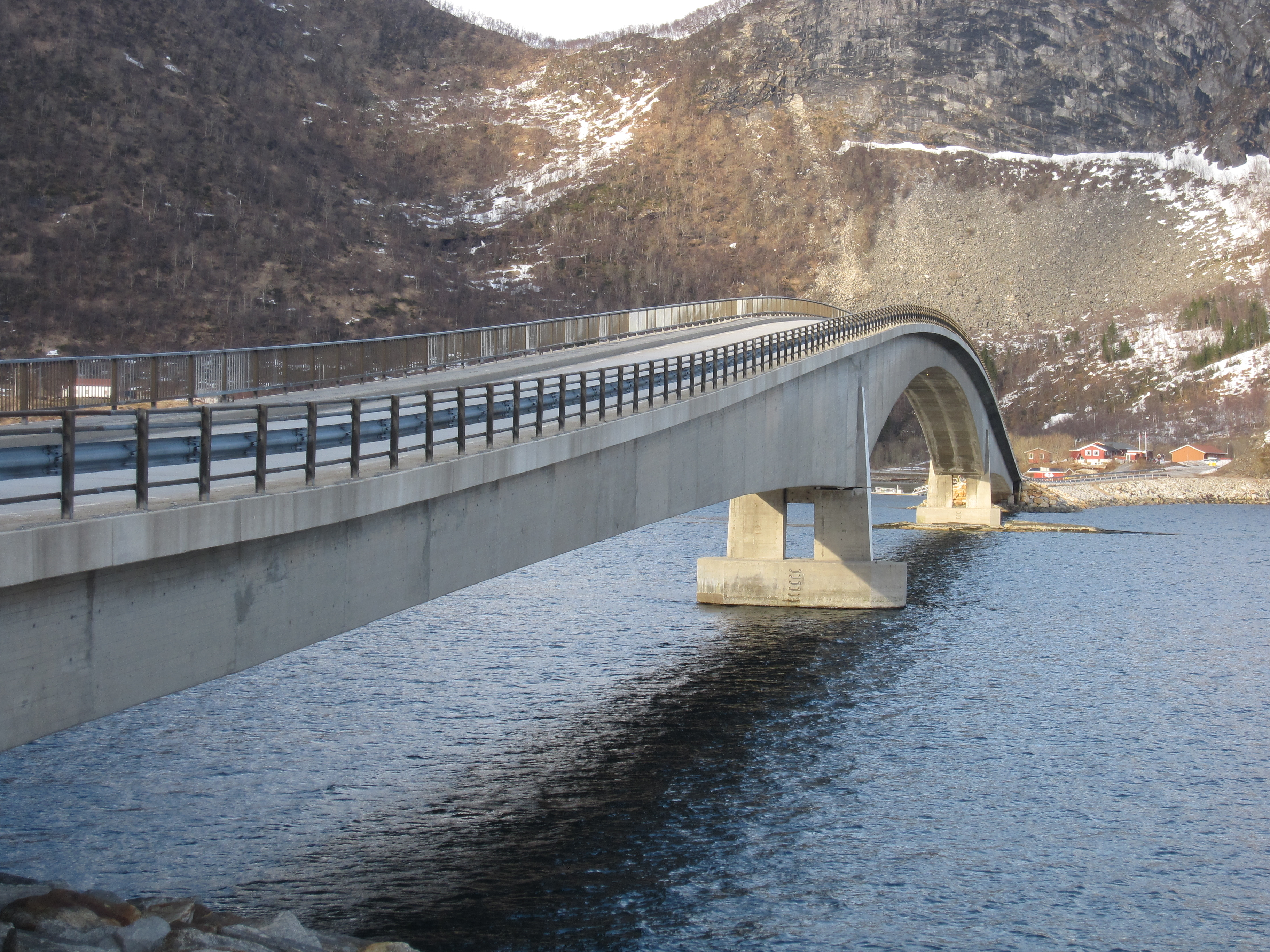 Picture of Sandhornøy bridge in Nordland, Norway.